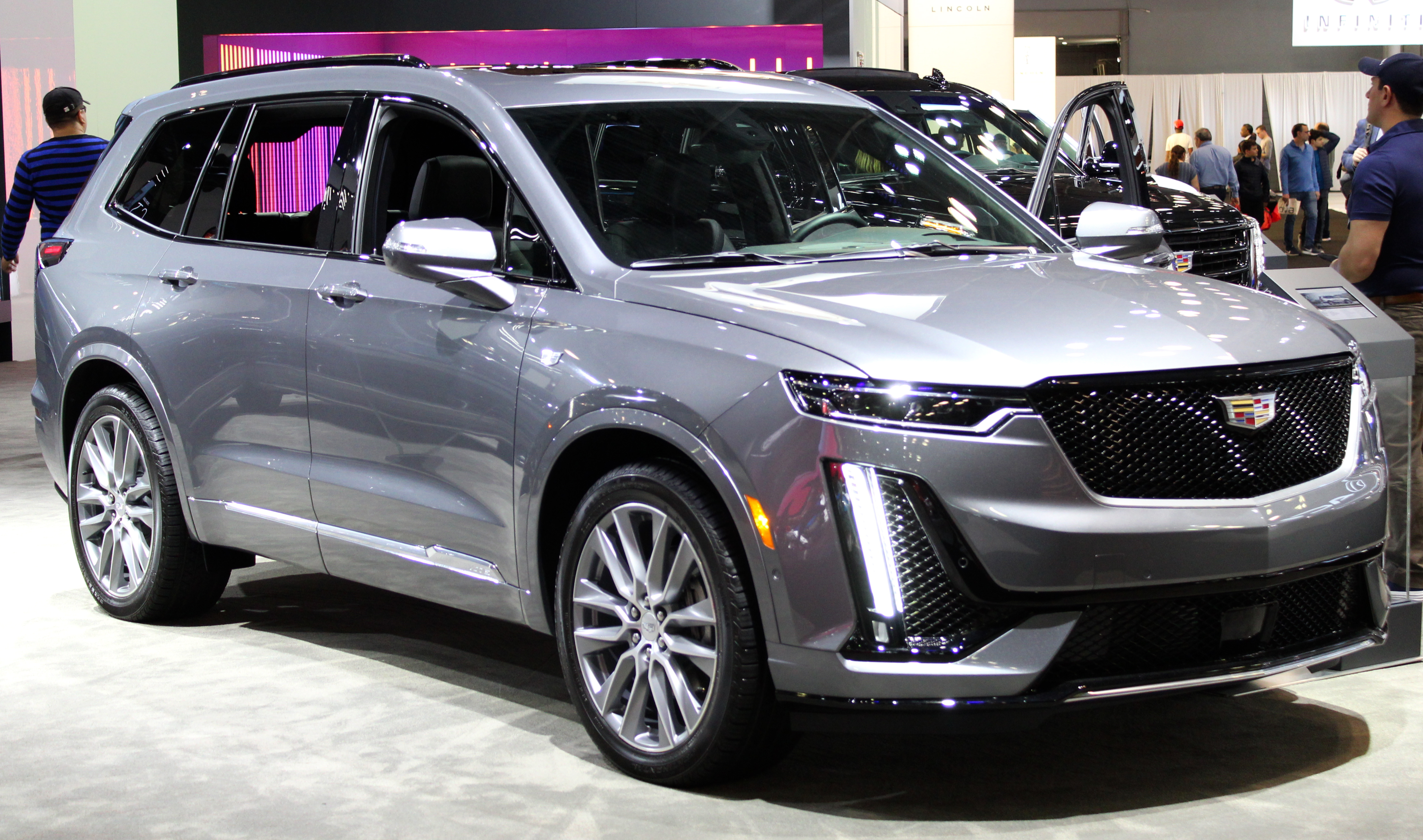 A 2020 Cadillac XT6 AWD photographed during the 2019 New York International Auto Show, in Hudson Yards, Manhattan, NYC